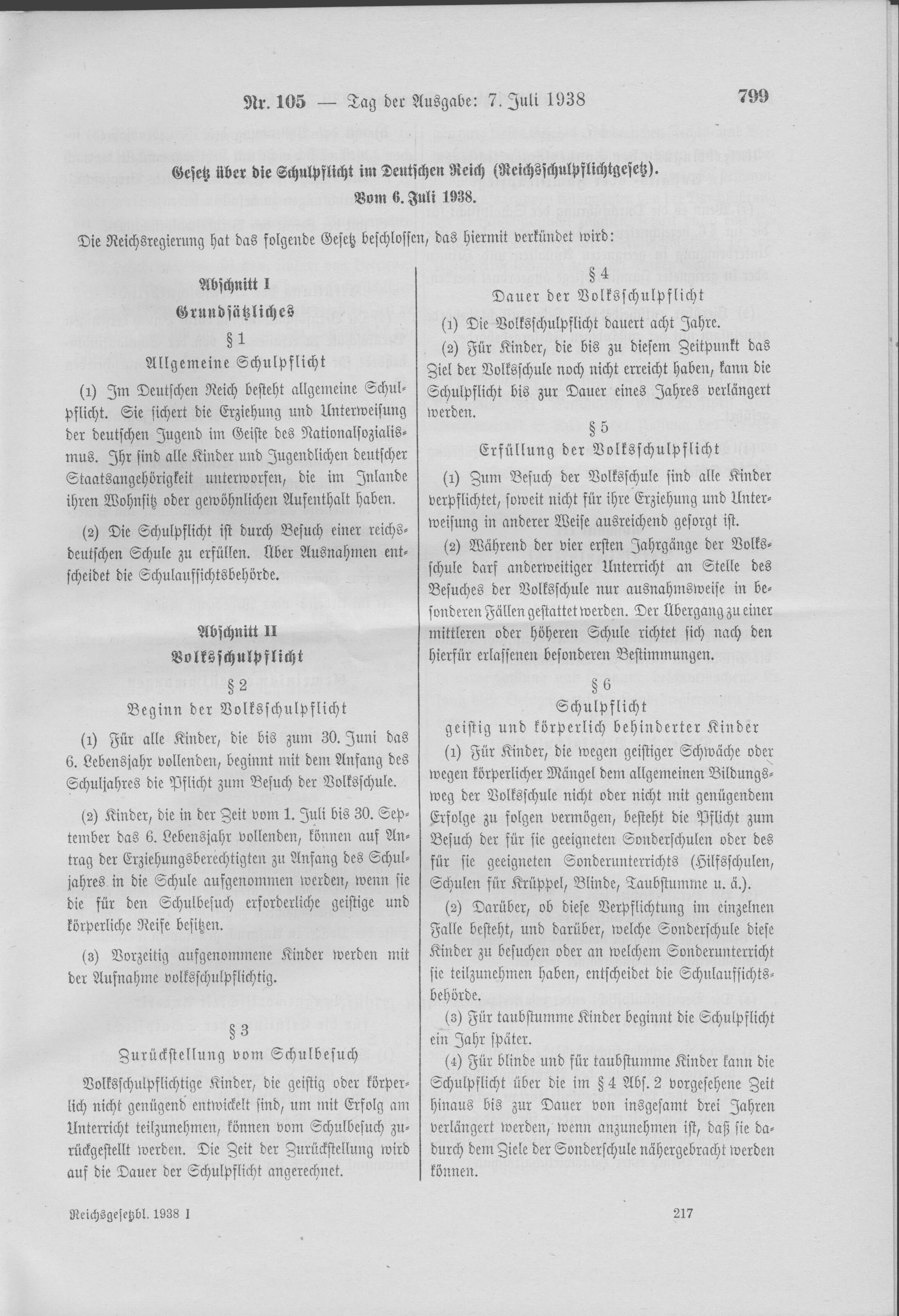 Scan from the Imperial Law Gazette of Germany, 1938, part 1